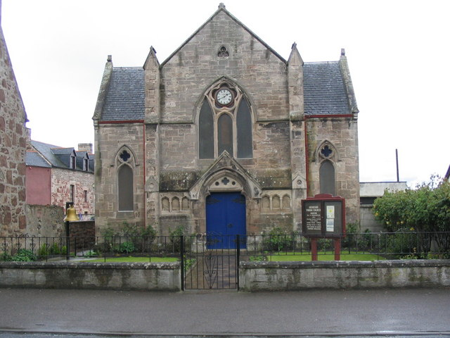 Ardersier Parish Church Fort George is in the parish of Ardersier, and the old parish registers, e.g. early C19th, (now in the Scottish National Archives, and available online)record the marriages of a number of the troops stationed there.